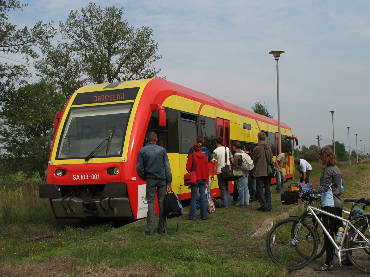 Basznia (Poland) railway station